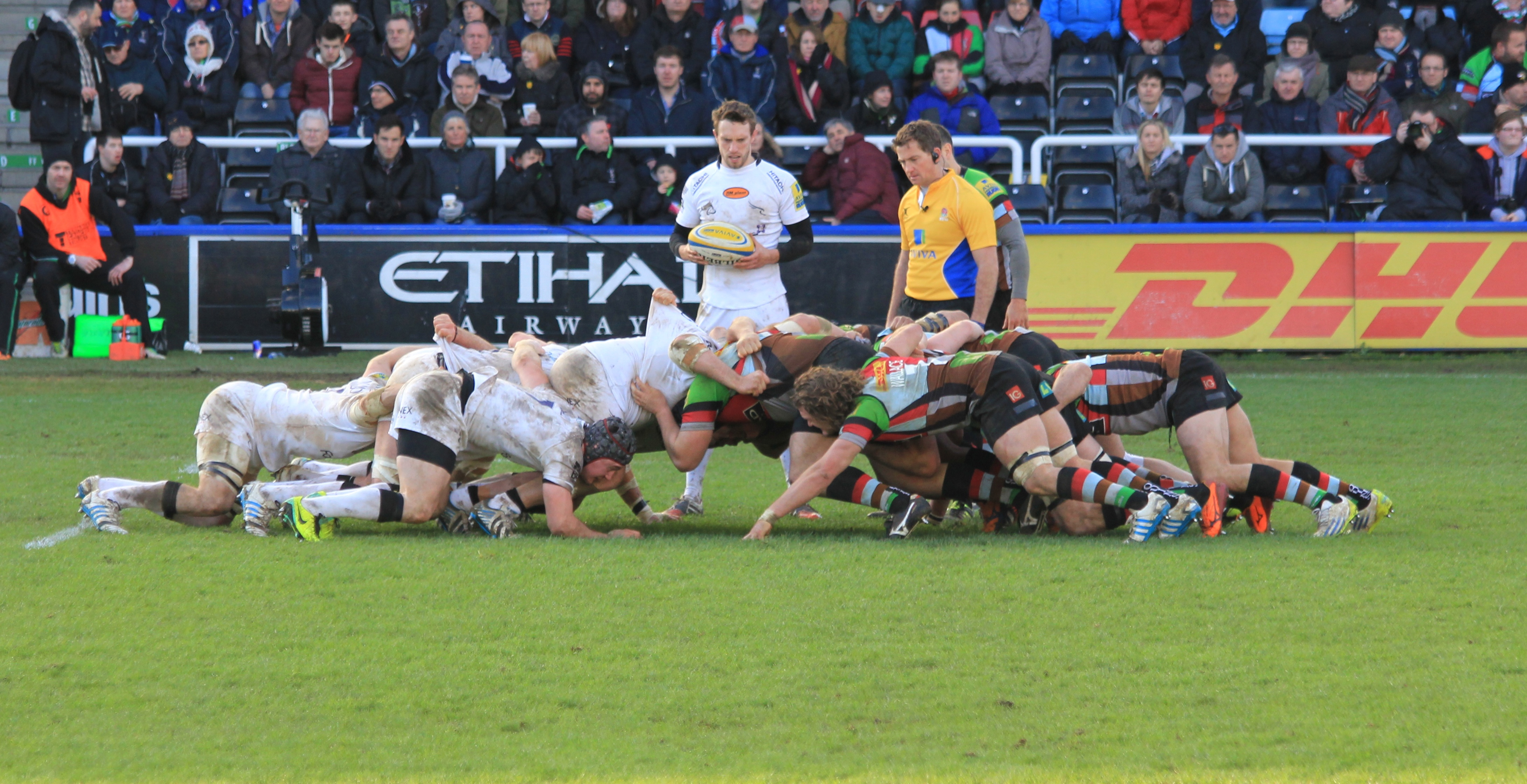 2013-14 English Premiership Harlequins vs Falcons